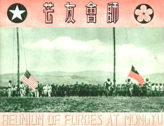 The Chinese Army in India and the elements of Chinese Expeditionary Force known as the Y Force converged at Mongyu to celebrate the opening of the Ledo Road.